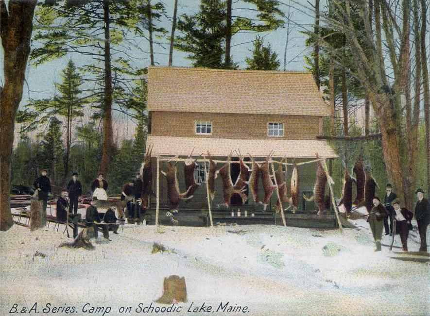 Hunting camp on Schoodic Lake, Maine; from a c. 1905 postcard published by the Hugh C. Leighton Company, Portland, Maine. (Bangor & Aroostook Railroad series)